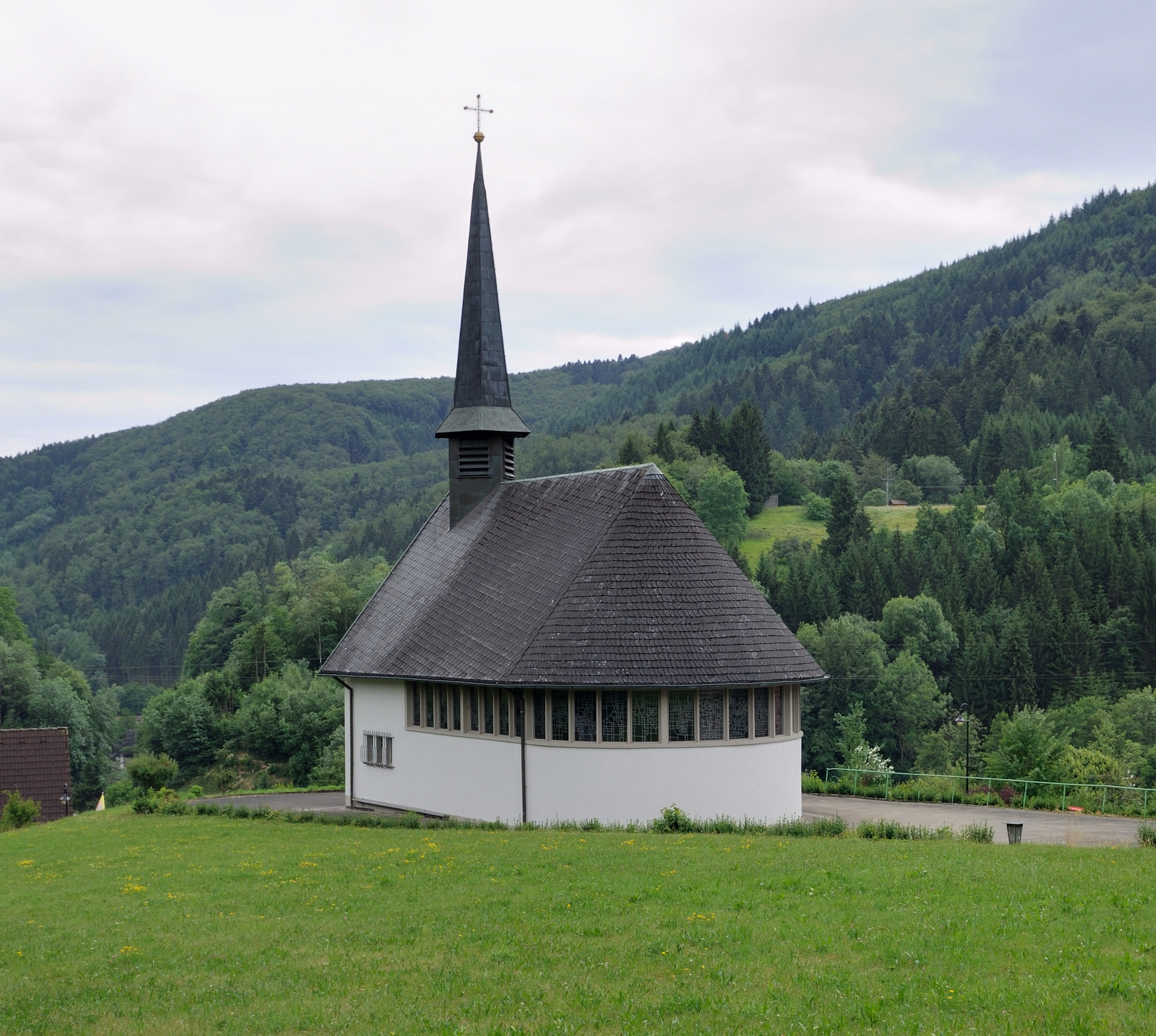 Tegernau: Catholic Church